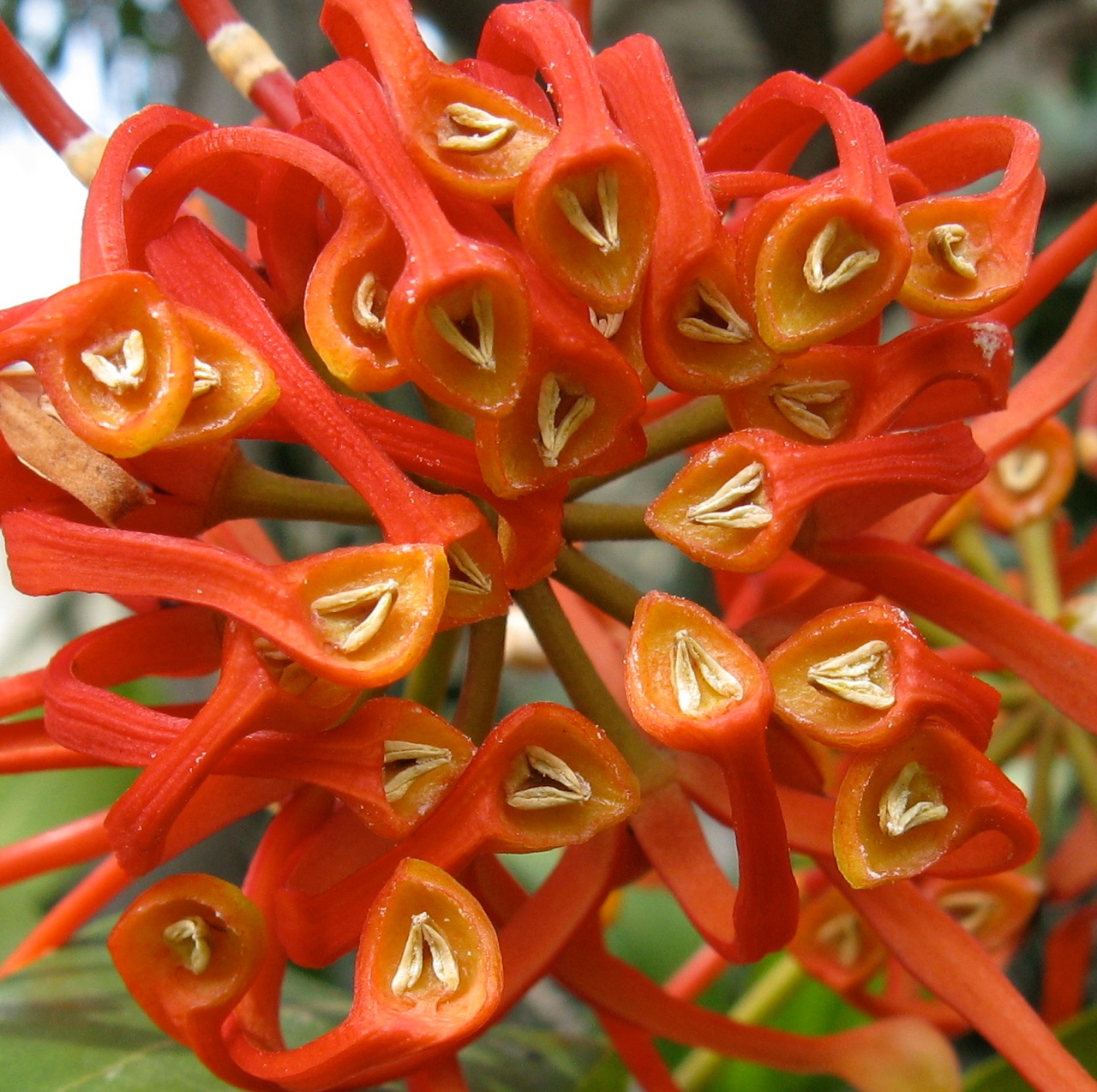 Stenocarpus sinuatus, anthers sessile on the sepals. Taken at the Huntington gardens, Los Angeles